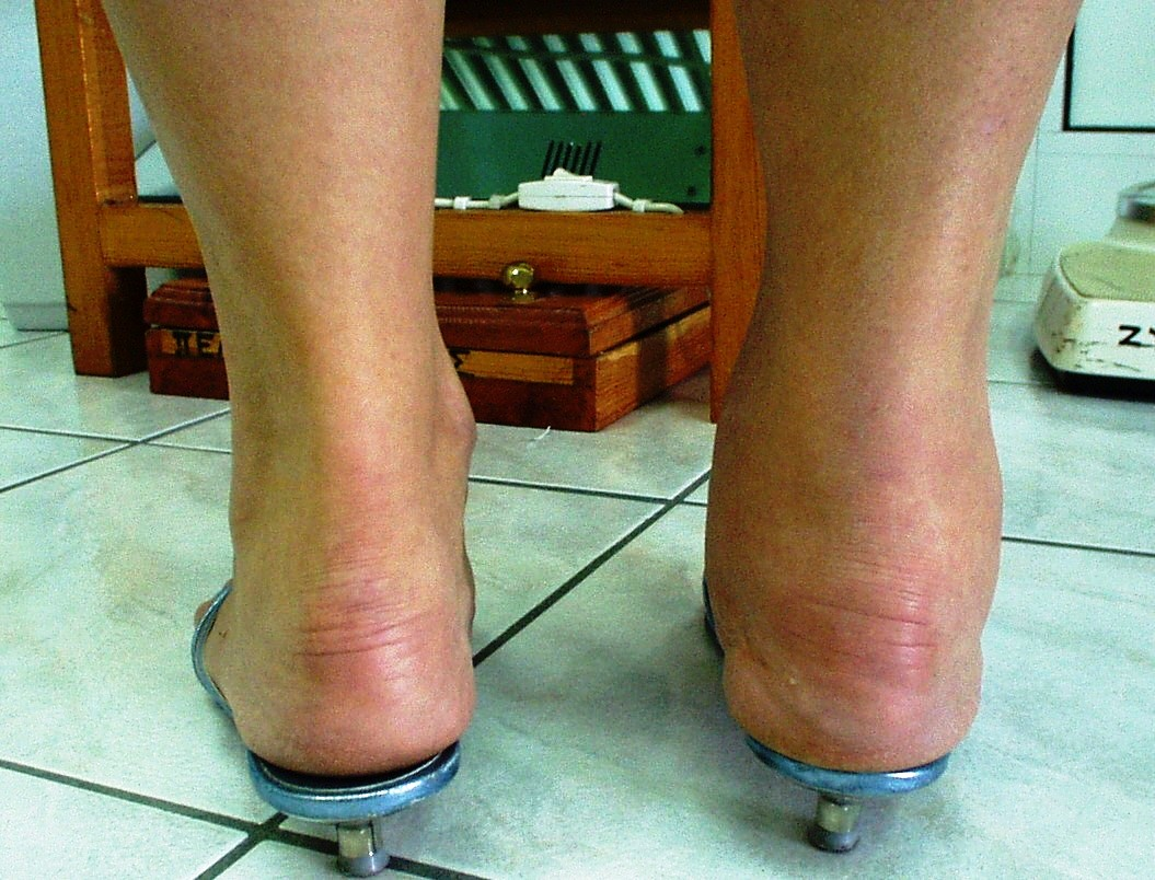 Ankle Joint Arthritis